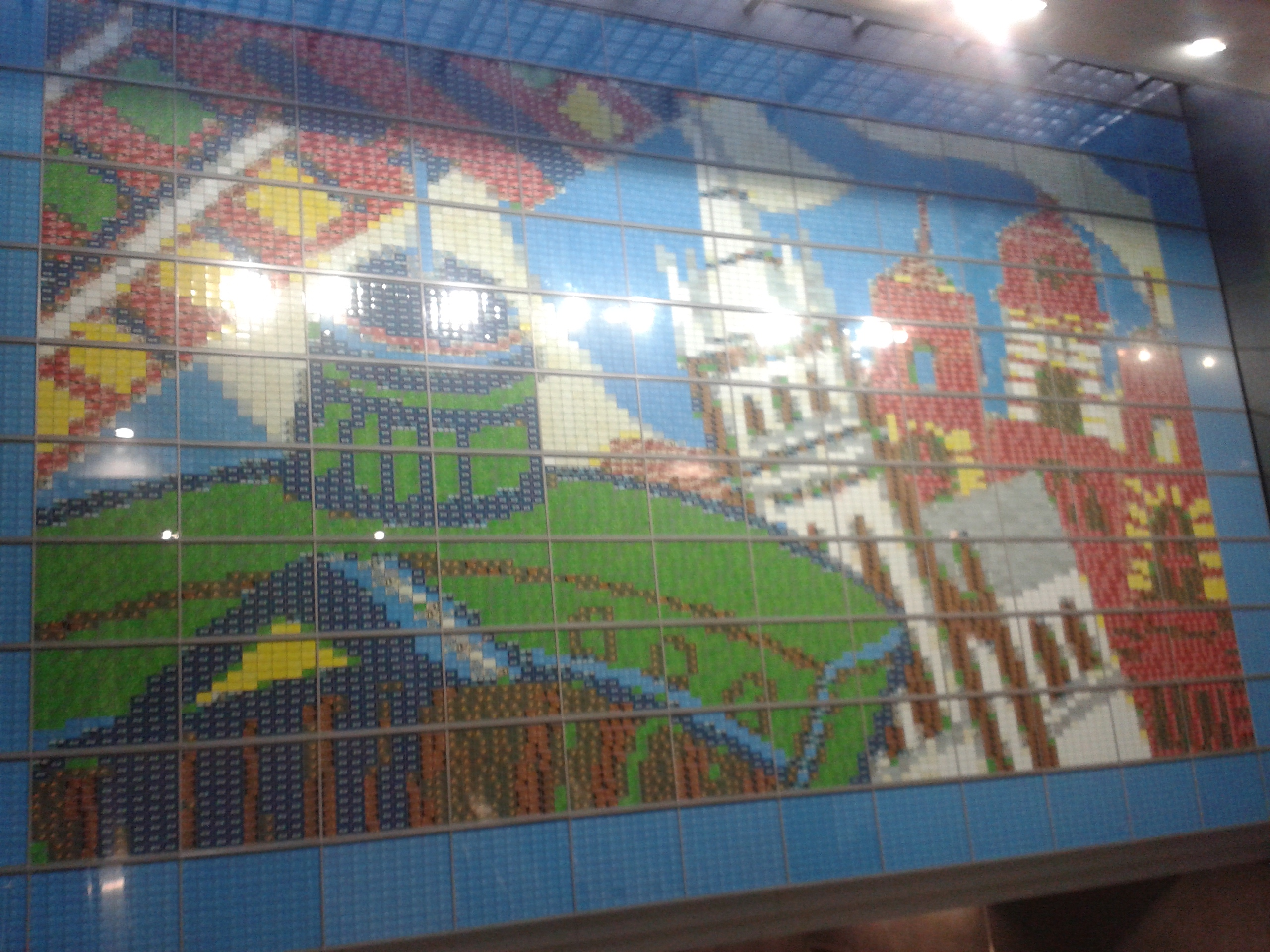 Date: 23 November 2014 Art work done by the Singapore Contemporary Young Artists.